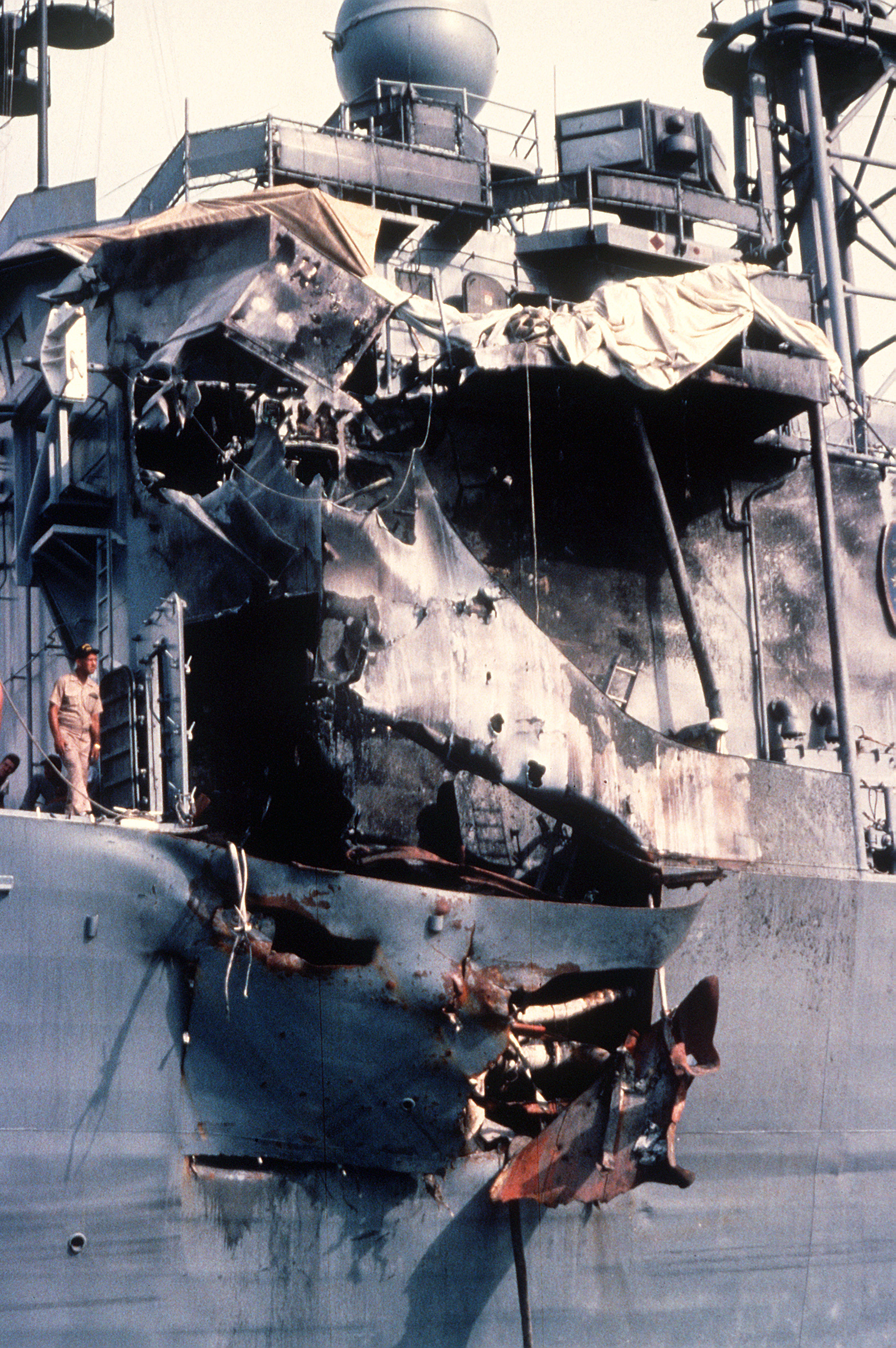 A view of damage sustained by the guided missile frigate USS STARK (FFG-31) when it was hit by two Iraqi-launched Exocet missiles while on patrol in the Persian Gulf.